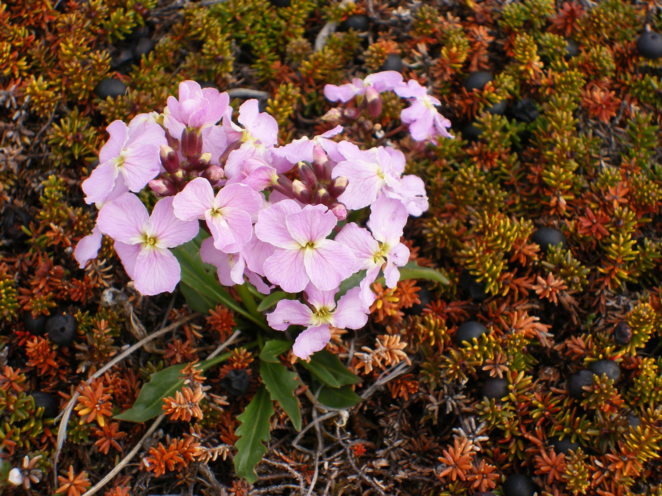 Flowering Parrya nudicaulis blooms amidst a background of prolific crowberries (aka blackberries) on the Arctic tundra. Arctic plants are short but mighty. Keeping a low profile protects them from harsh weather. Cluster of pink flowers and black berries.